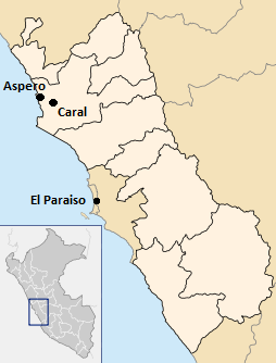 Archaeological Site locations within Peru, including El Paraiso, Caral, and Aspero